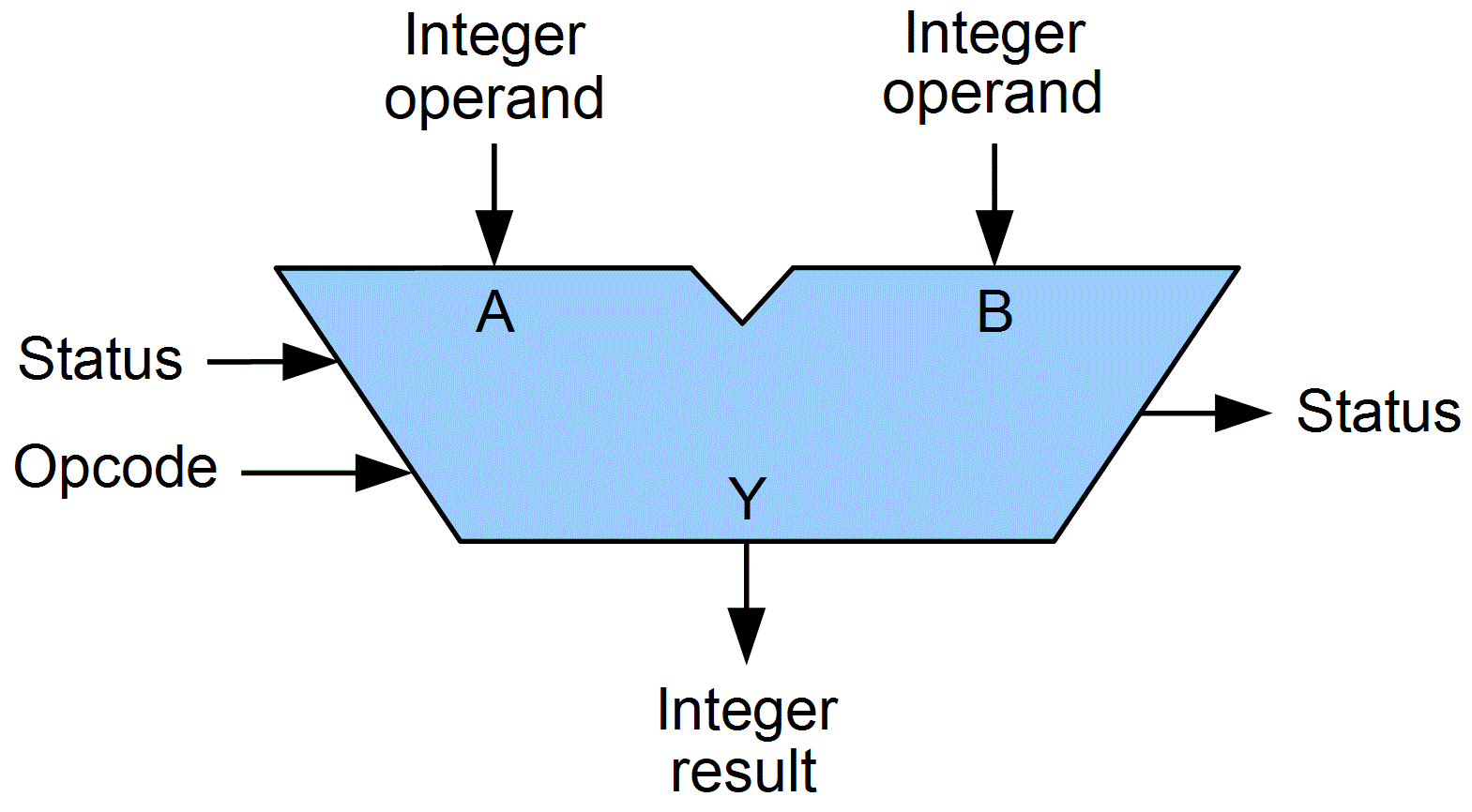 Symbolic representation of an arithmetic logic unit (ALU)